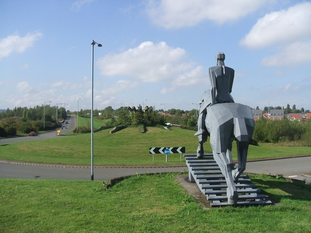 Black Country Route on the Lunt in Bilston. This major road has opened up the central area of the Black Country for redevelopment.